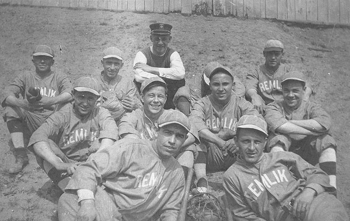 Photo #: NH 98031 USS Remlik (SP-157) Ship's baseball team, who were the 1917-1918 Pennant winners in the Navy Yacht League at Brest, France.